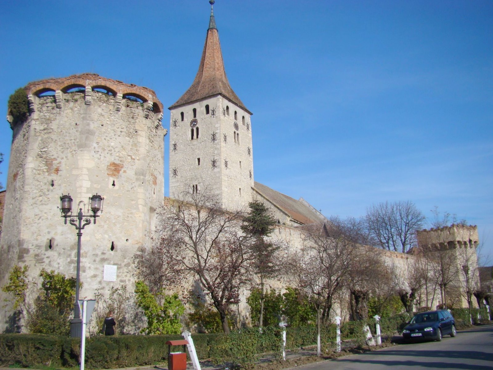 Aiud Castle, Alba county, Romania